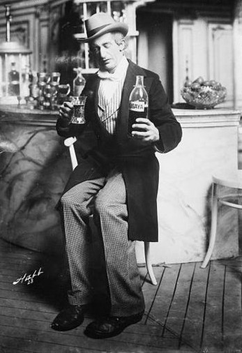 Lew Fields (1867 - 1941), American actor, comedian, vaudeville star and theatre manager and producer